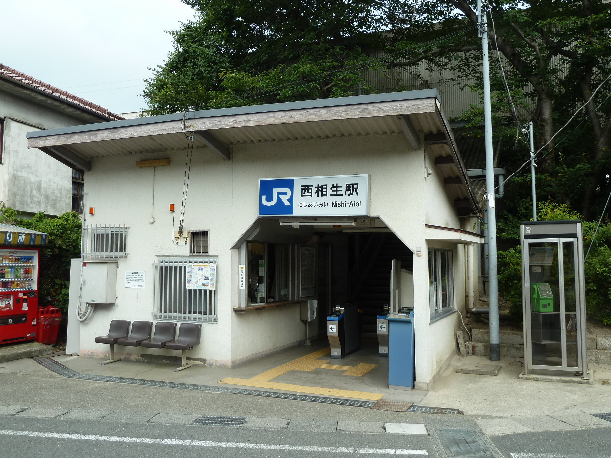 Nishi-Aioi Station(Akō Line) in Hyogo, Japan.